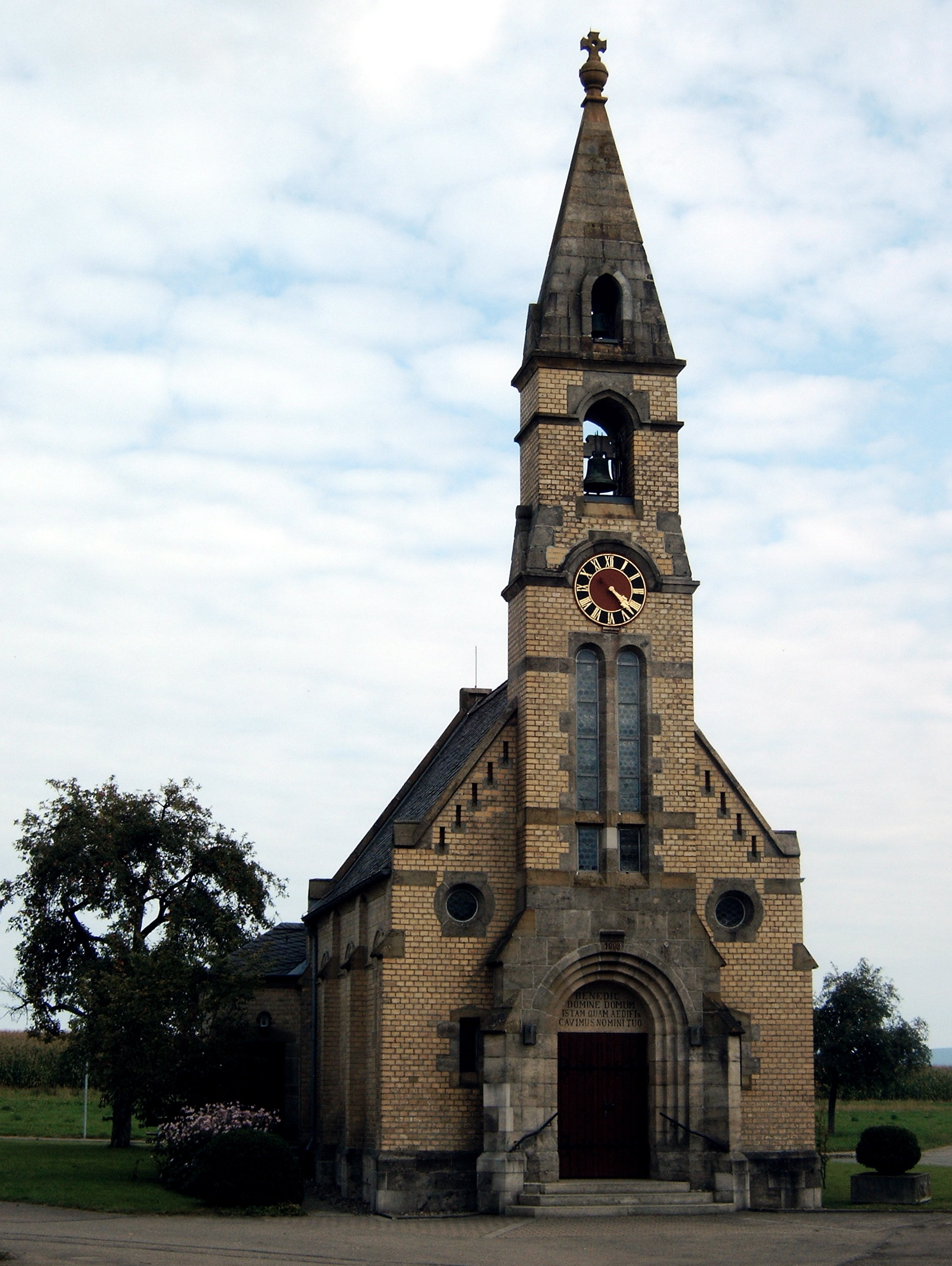 Chapel in Pfersbach, borough of Mutlangen, Germany